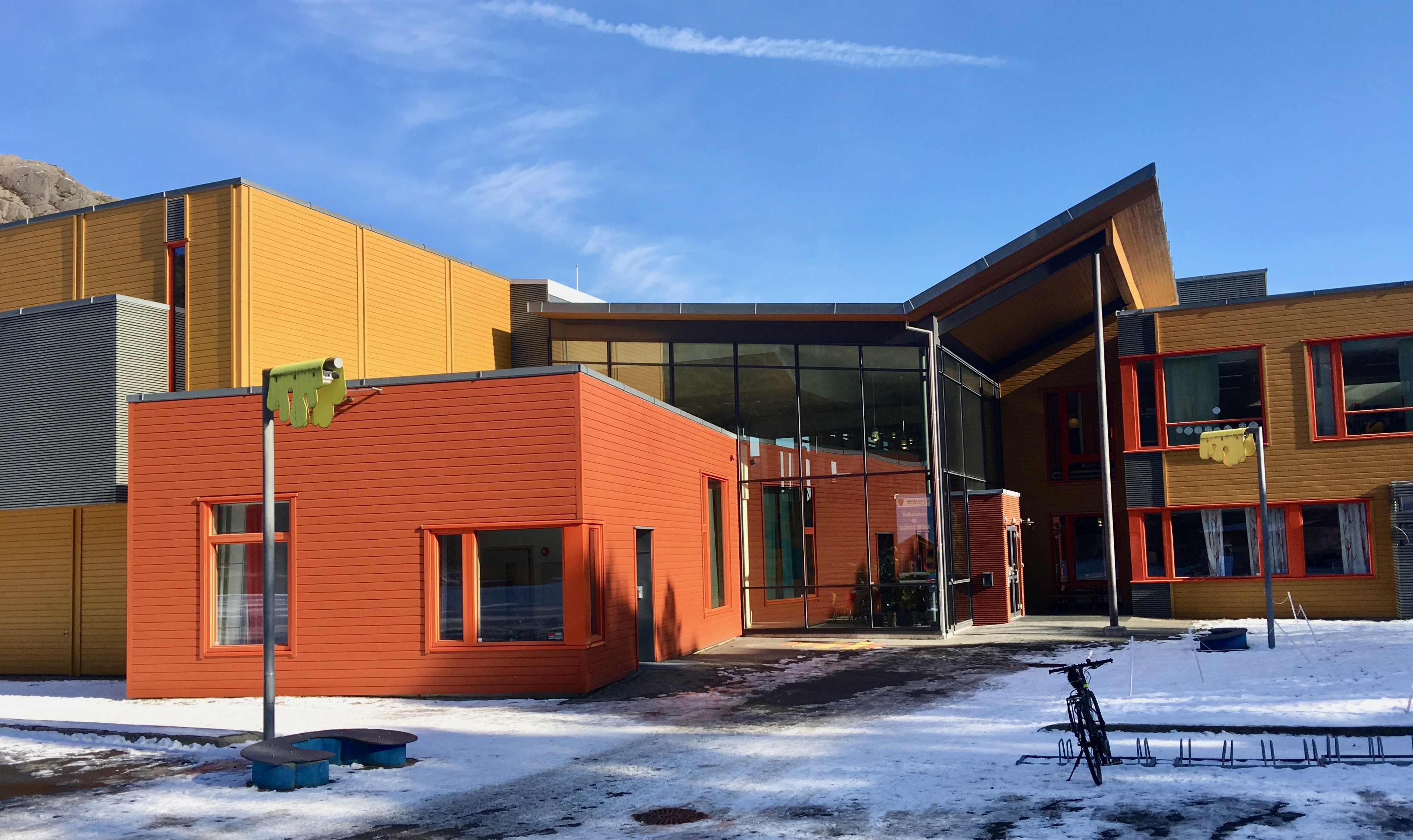 Sagvåg skule, a primary school in Stord, Norway. Photo 2018-03-06.